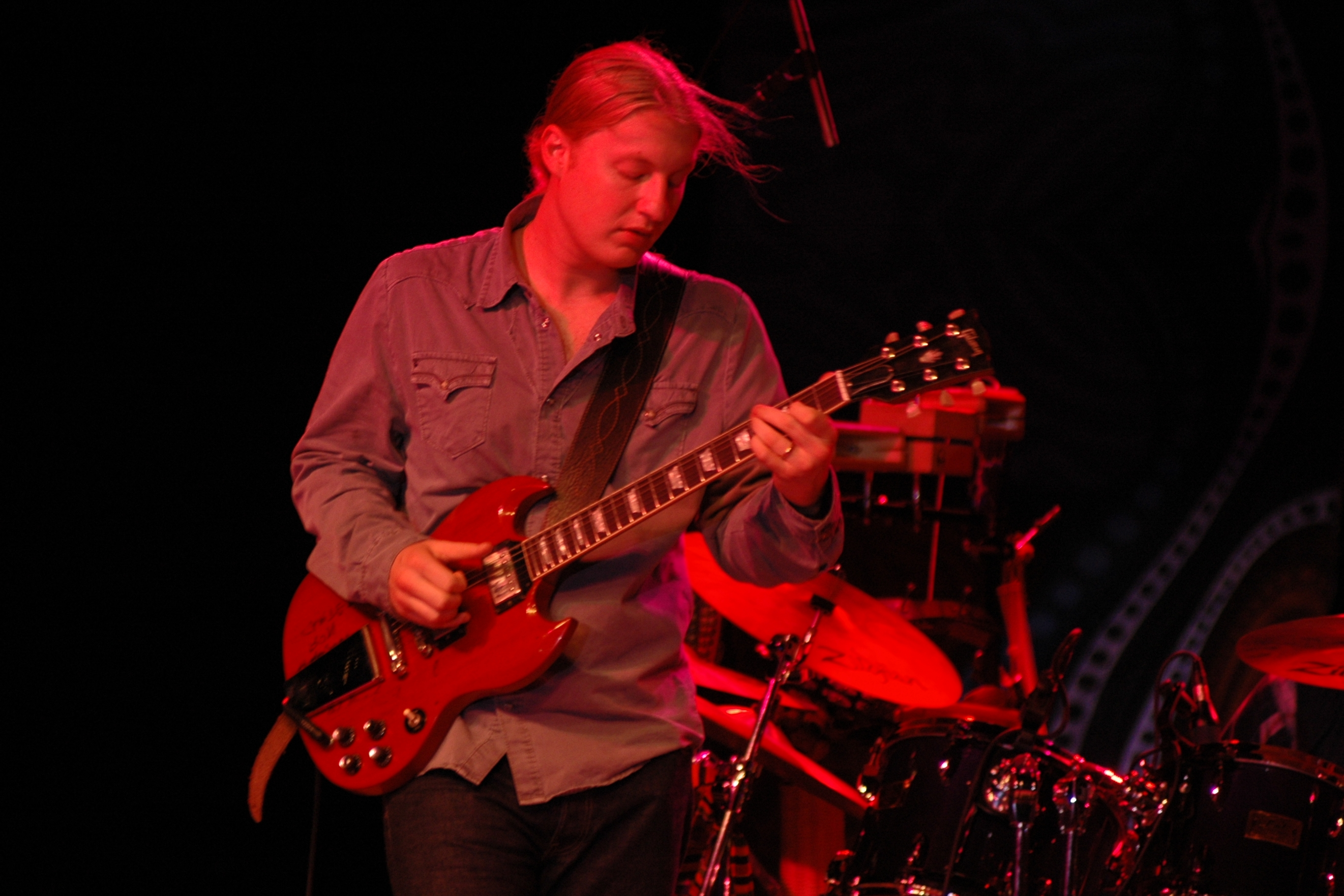 Live at the Pompano Beach Amphi-theatre December 29, 2006